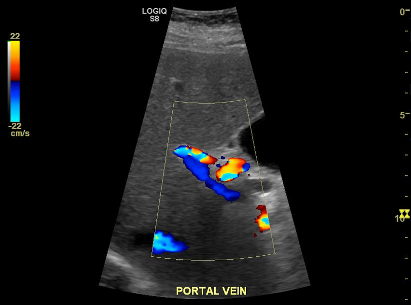 Hepatofugal flow in portal vein in ultrasound - patient has known cirrhosis